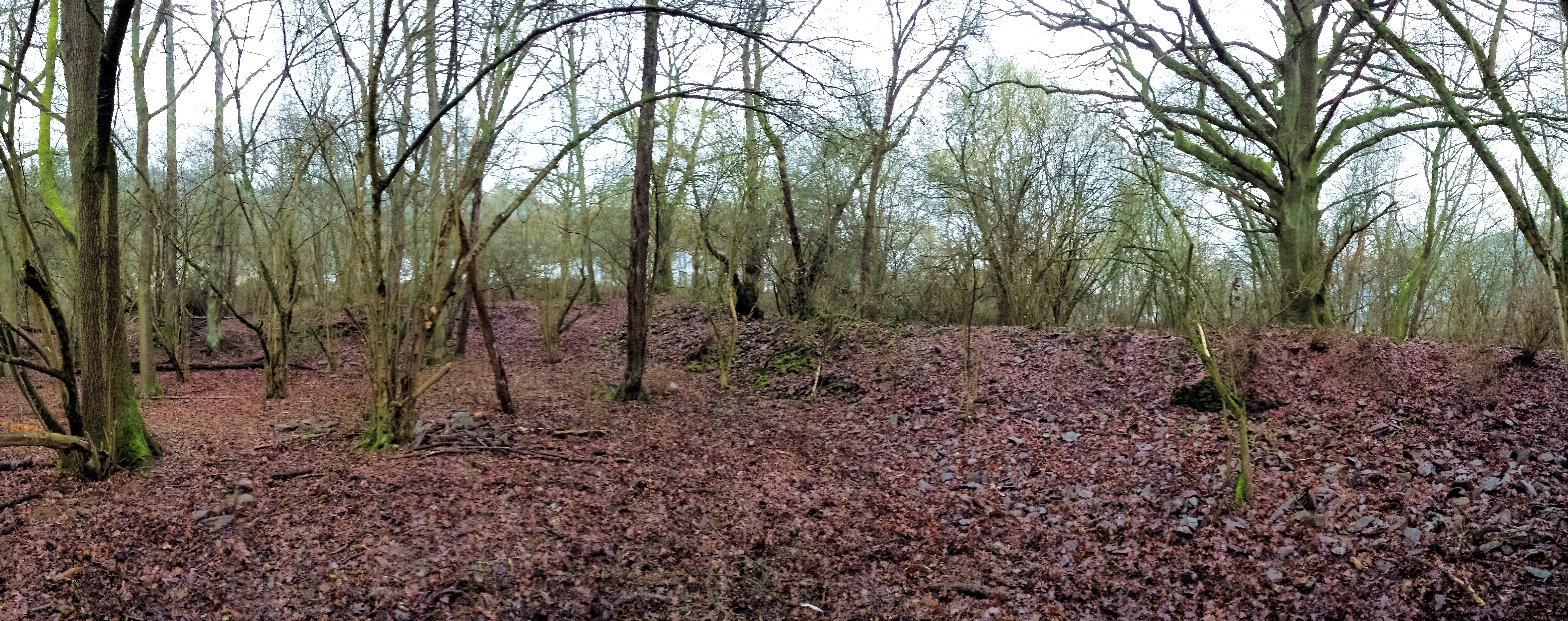 Envelopment wall of a former roman Villa rustica in Cond